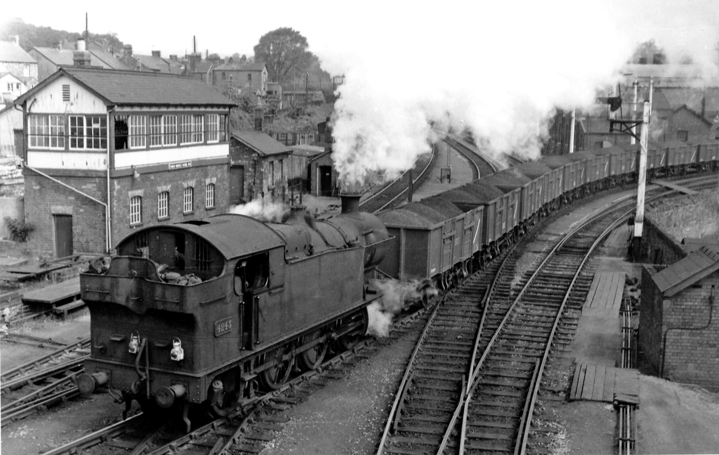 Coal train from the Ogmore Valleys passing Tondu. View NW beside Tondu Middle Box, Tondu Station being behind camera: ex-GW lines from Bridgend/Margam - Cymmer (to left) and Blackmill/Blaengarw/Nantymoel etc. to the right. Churchward '4200' 2-8-0T No. 4243 (built 2/16) is bringing a train of slack - probably for Margam Steelworks - off the Ogmore Valley line from the Blackmill direction.